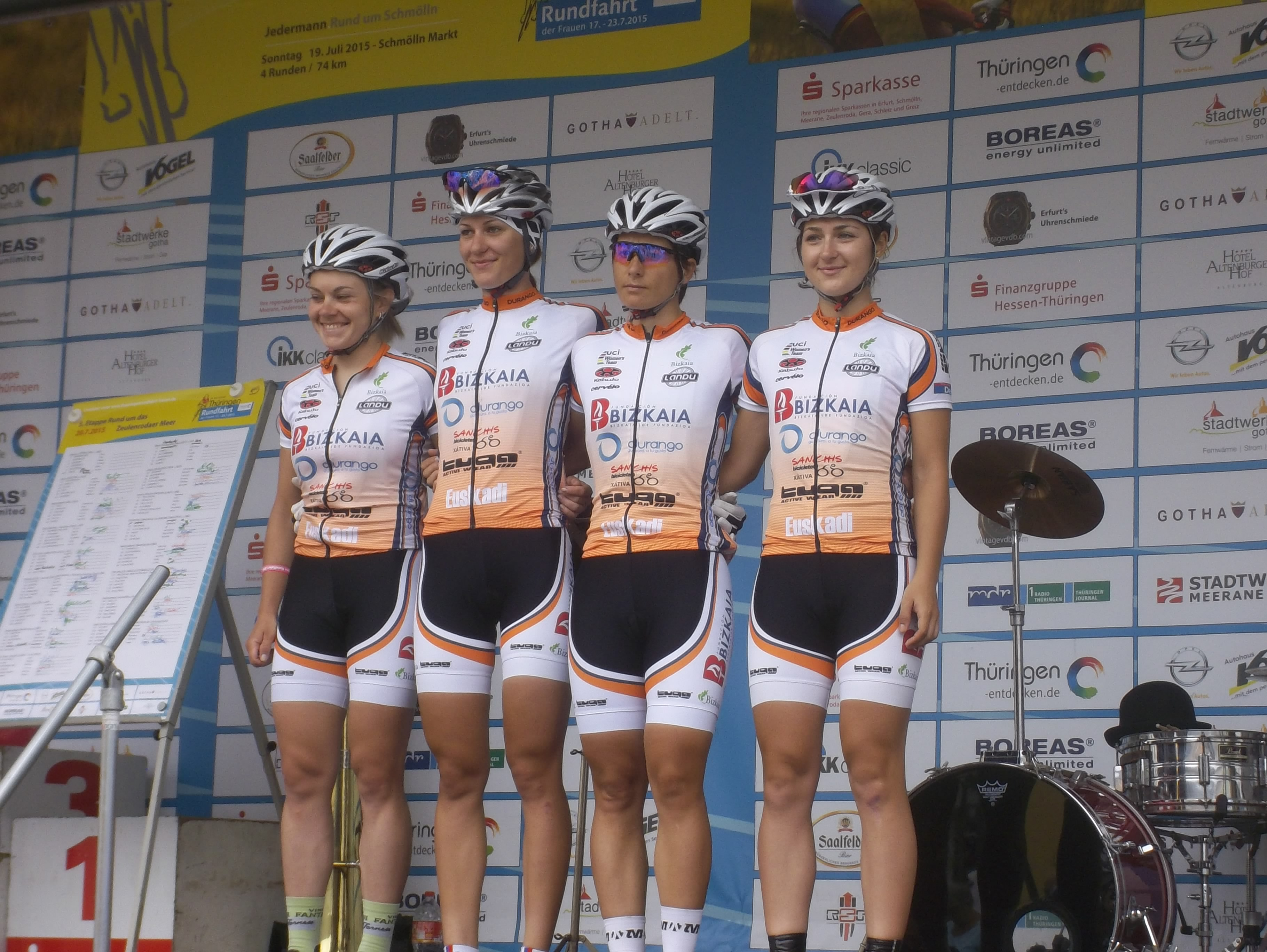 Team Bizkaia-Durango before the stage 4 of the Thüringen-Rundfahrt 2015